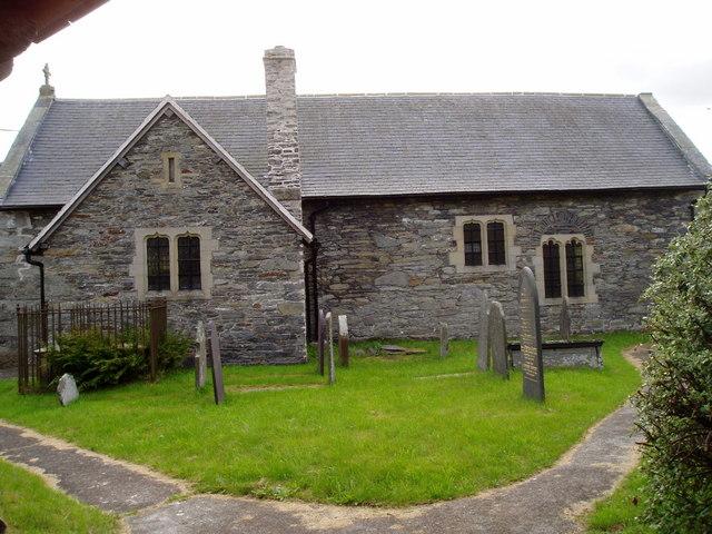 St Mary's Church, Bettws Gwerfil Goch Ancient church, dating back to the middle ages.